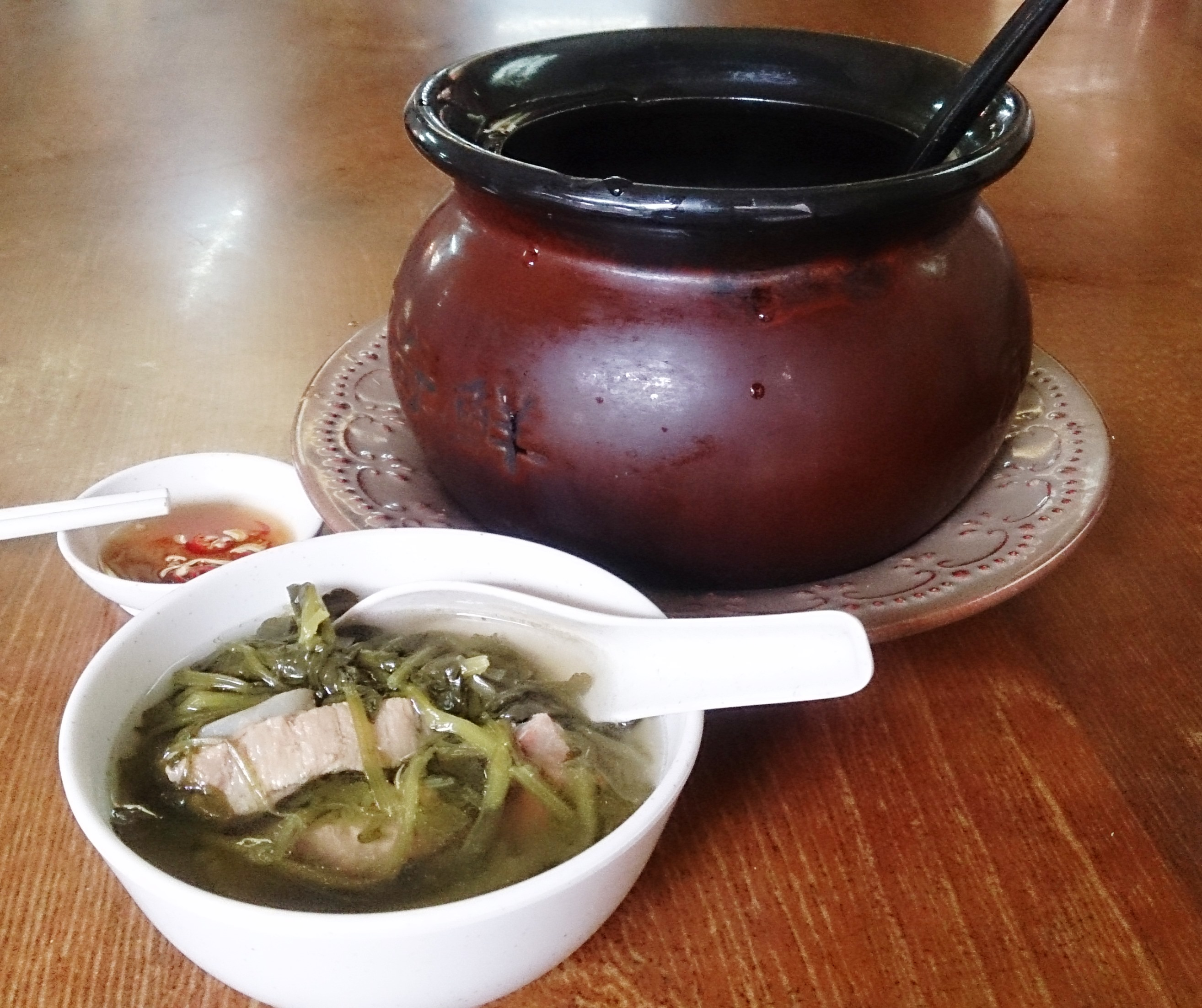 delicious